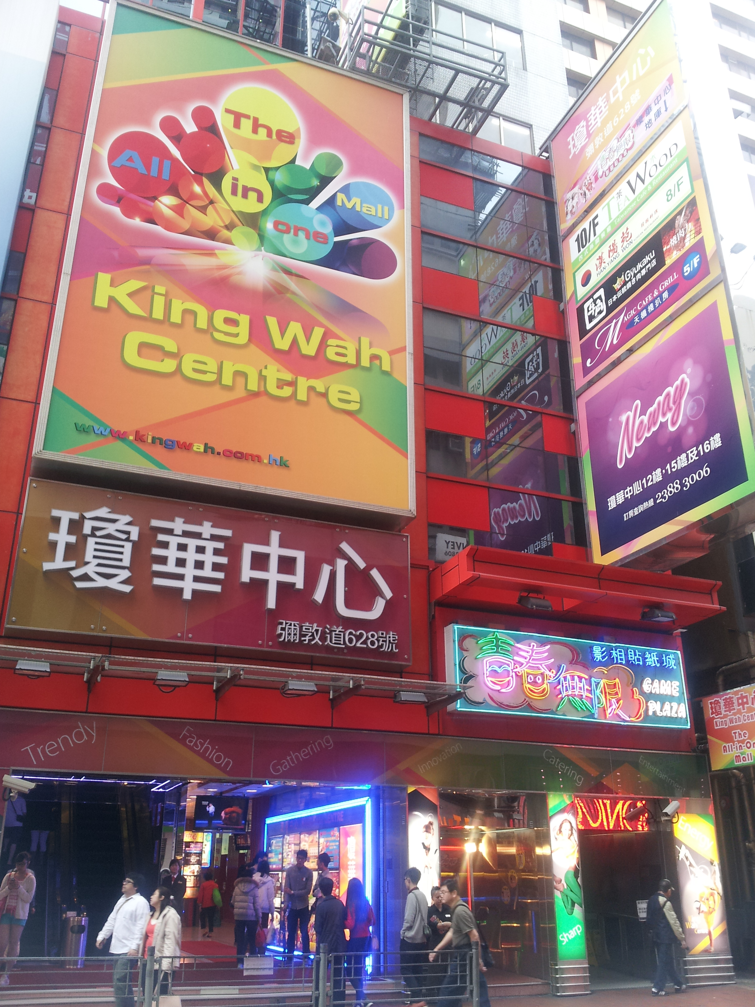 King Wah Centre is located in at heart of Mong Kok arround MTR stations. Other information It is taken at 1p.m.